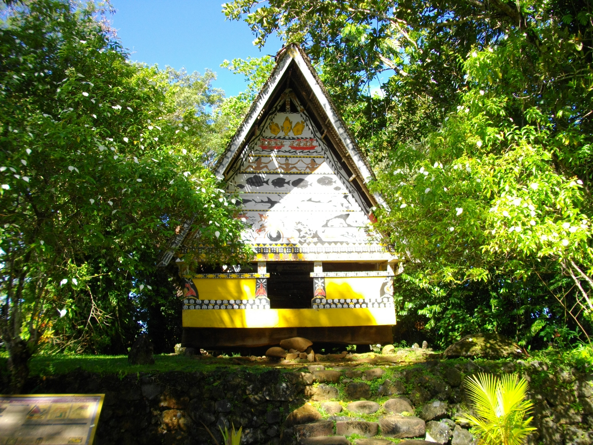 BNM(Belau National Museum) Bai